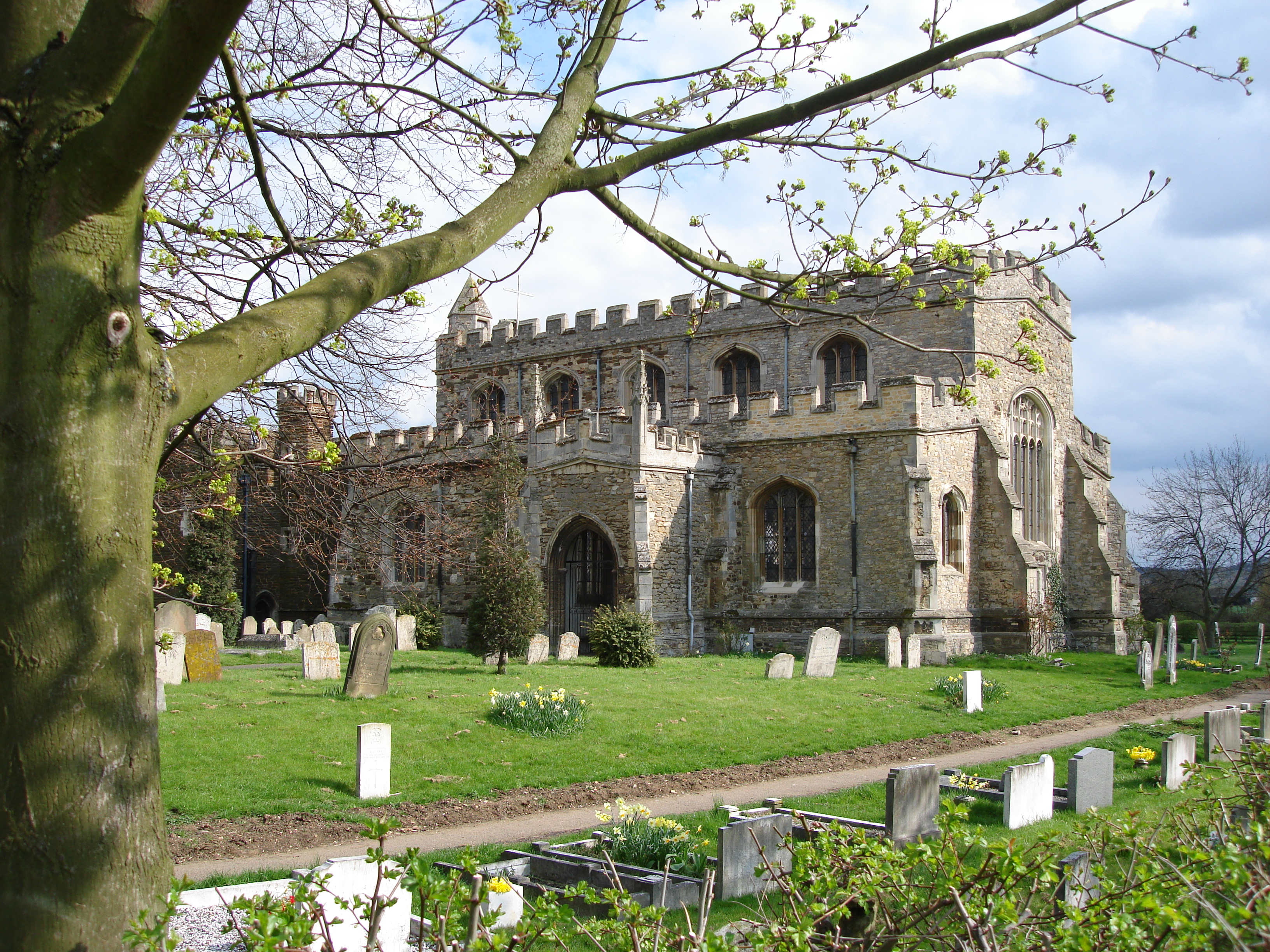 This is a picture of St Mary's church in Marston Moretaine taken easter 2006. (GrahameR)